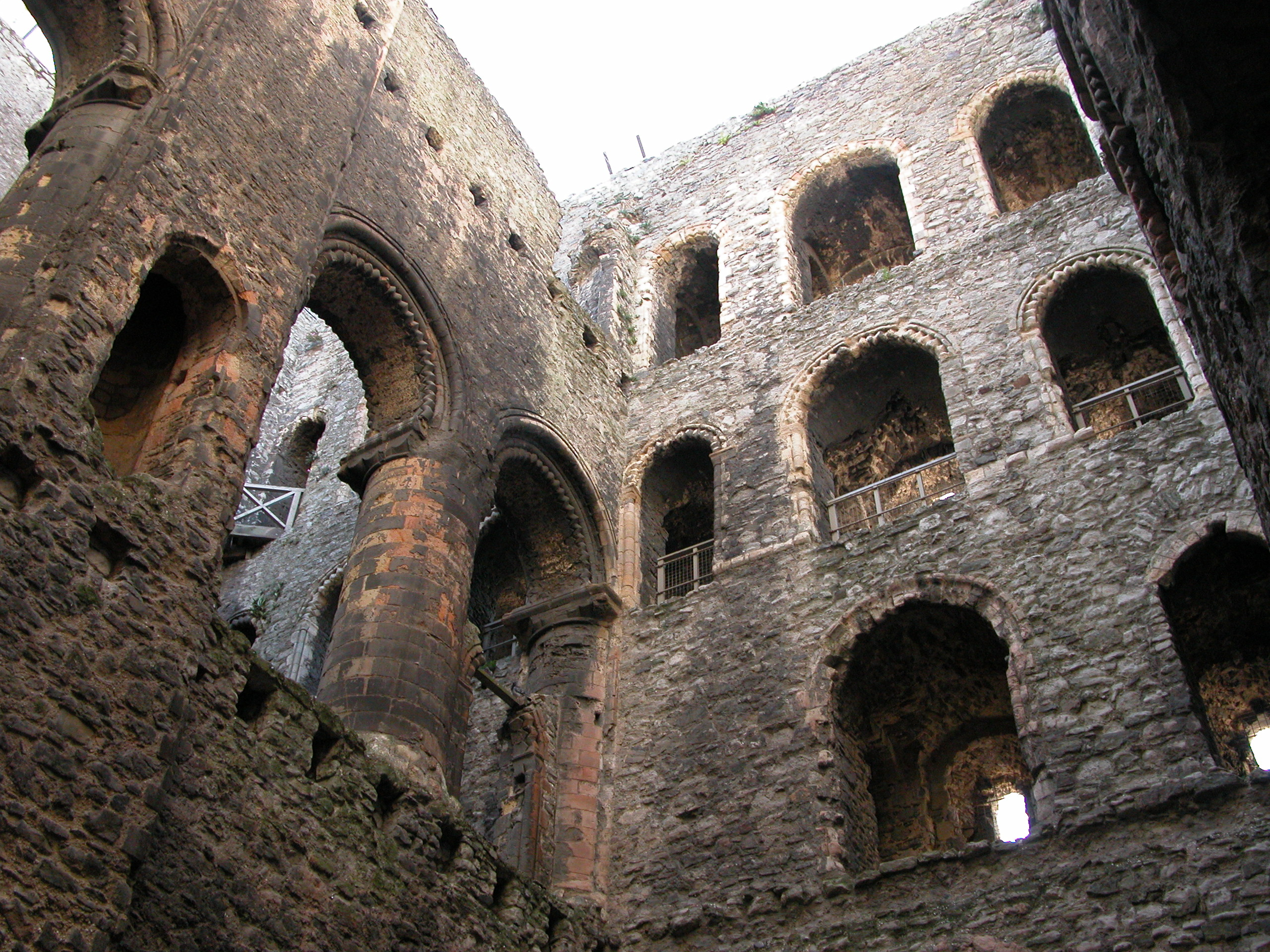 Interior view of Rochester Castle